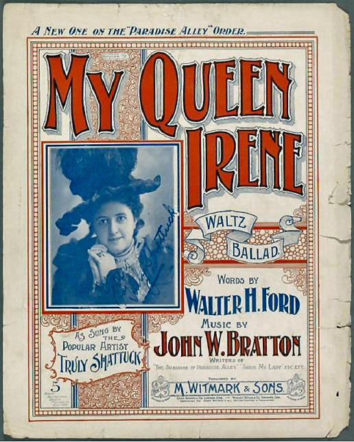 My Dear Irene Songbook ca. 1899 (Truly Shattuck)